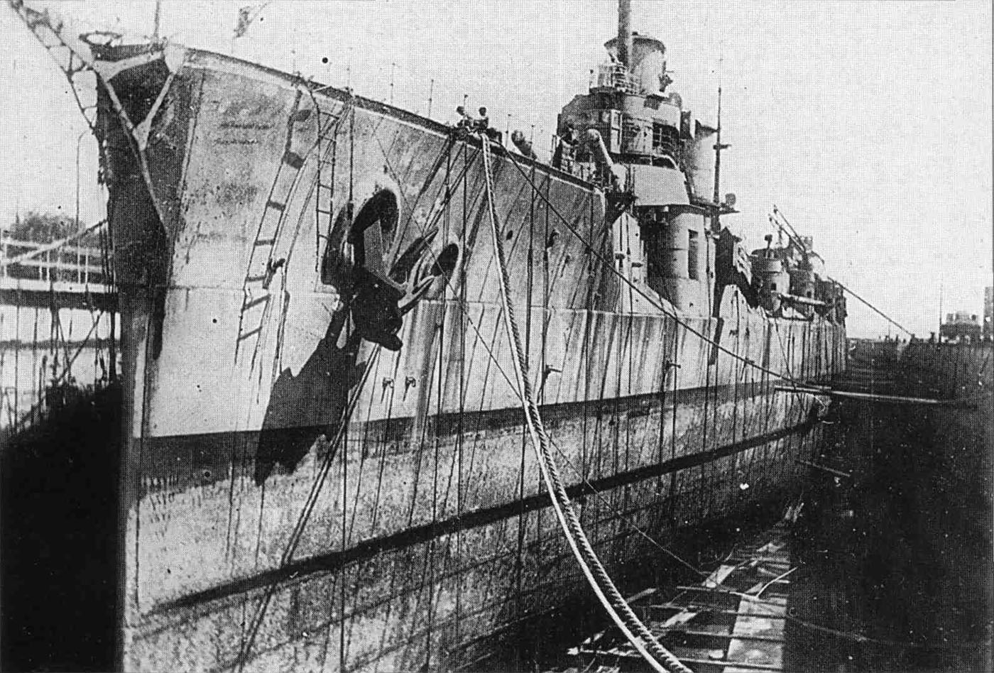 Battleship General Alekseev, after October 1919.